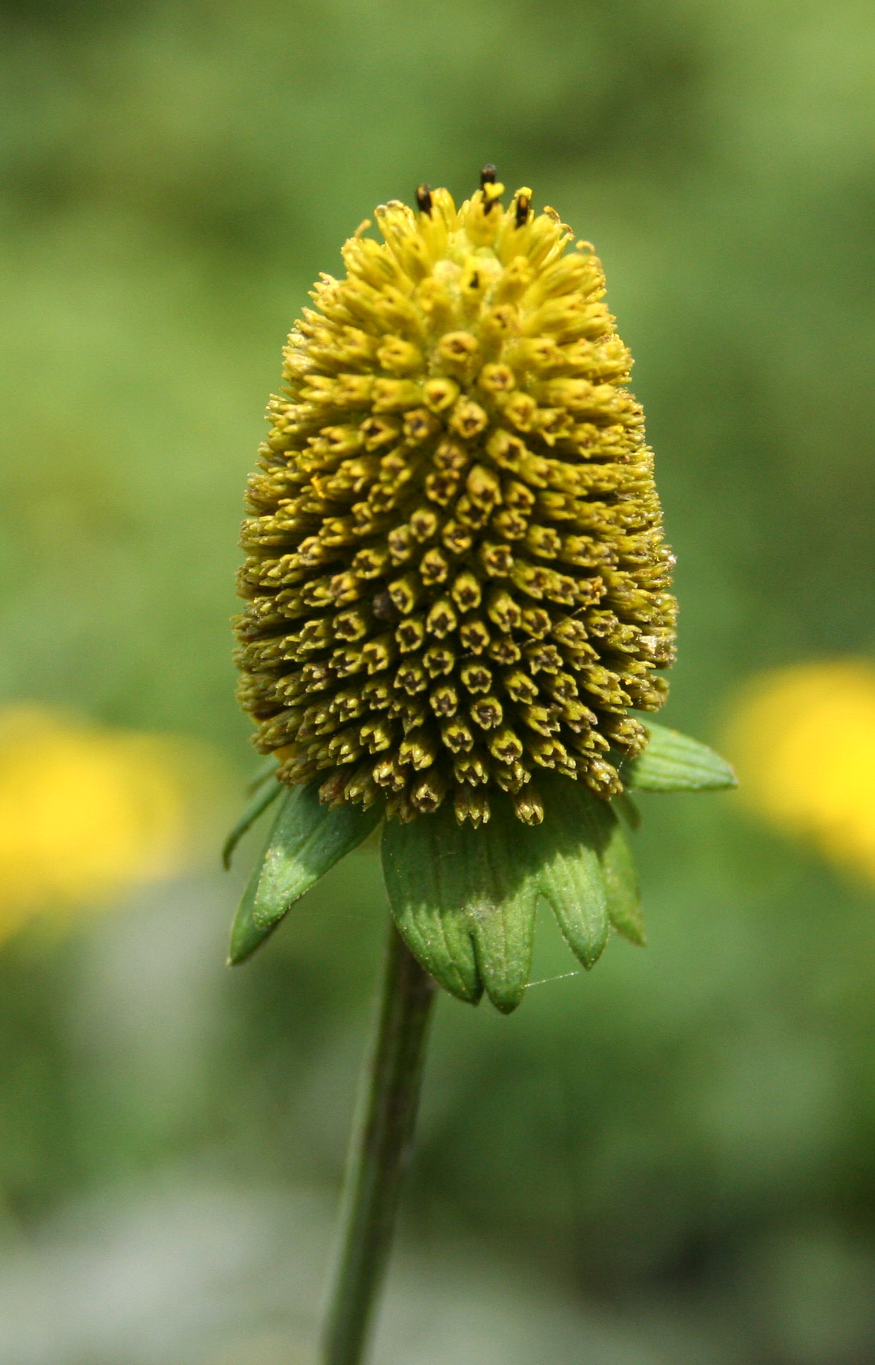 Rudbeckia laciniata